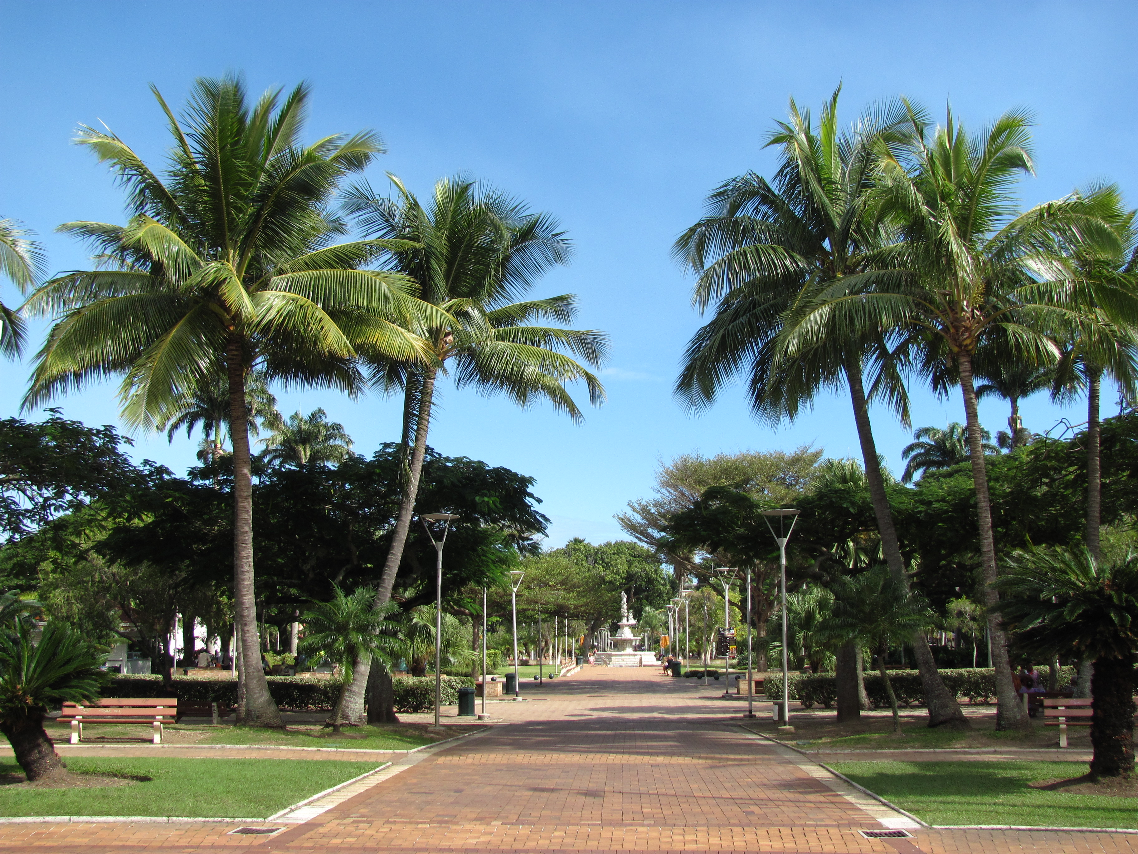 Place des Cocotiers, Nouméa, New Caledonia